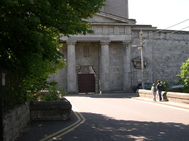 Façade of Cork Male Prison The prison itself fell into disuse after independence, and was finally demolished and University College hospital built on the site. The façade was kept, with its commemorative plaques.